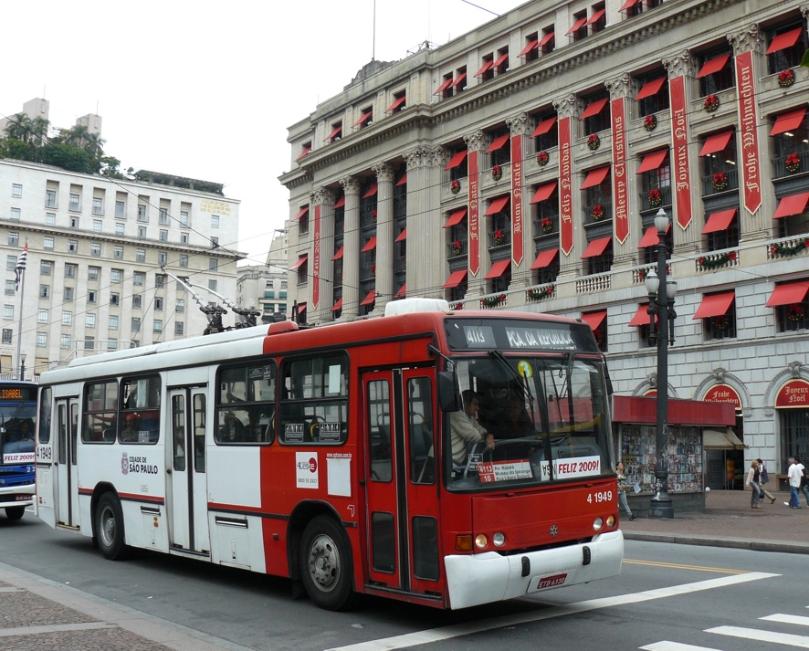 Trolleybus 1949, of the SPTrans system in São Paulo, Brazil, was a high-floor vehicle built in 1997 by Marcopolo SA (model "Torino GV"), on a Volvo chassis. In this photo, it was in service on route 4113-10. The 4 before the fleet number is a prefix indicating the zone of the city that encompasses one group of transit routes, operated by one company, under a concession from SPTrans. Currently, all SPTrans trolleybus operation is in zone 4, but two other zones had trolleybus service (with different operating companies) under SPTrans in the past. The last high-floor trolleybuses on the SPTrans system were retired in September 2013.